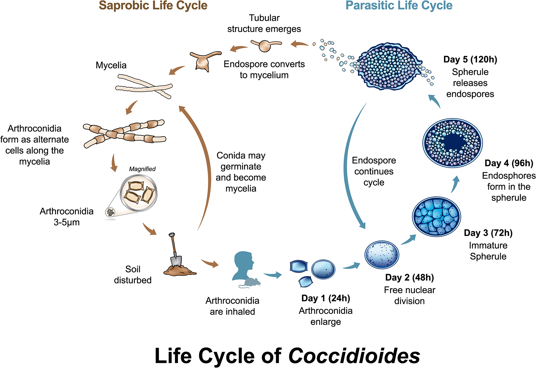 Both Coccidioides species share the same asexual life cycle, switching between saprobic (on left) and parasitic (on right) life stages. The saprobic cycle is found in the environment, and produces the infectious arthroconidia. The conidia may be inhaled by a susceptible host, or may return to the environment to continue the saprobic life cycle. The parasitic life cycle is initiated when arthroconidia enlarge and transform into immature spherules, either in vivo or under specific in vitro conditions. From 24 to 72 hours, spherules undergo free nuclear division and begin developing endospores. From 72 to 120 hours, the mature spherules rupture to release endospores. Each endospore can initiate a new spherule, or, under particular atmospheric conditions, nutrient changes, and/or lower temperature, the endospore can convert to a mycelium and initiate the saprobic phase. This occurs in rare circumstances in the living host, but is found most commonly in the environment.